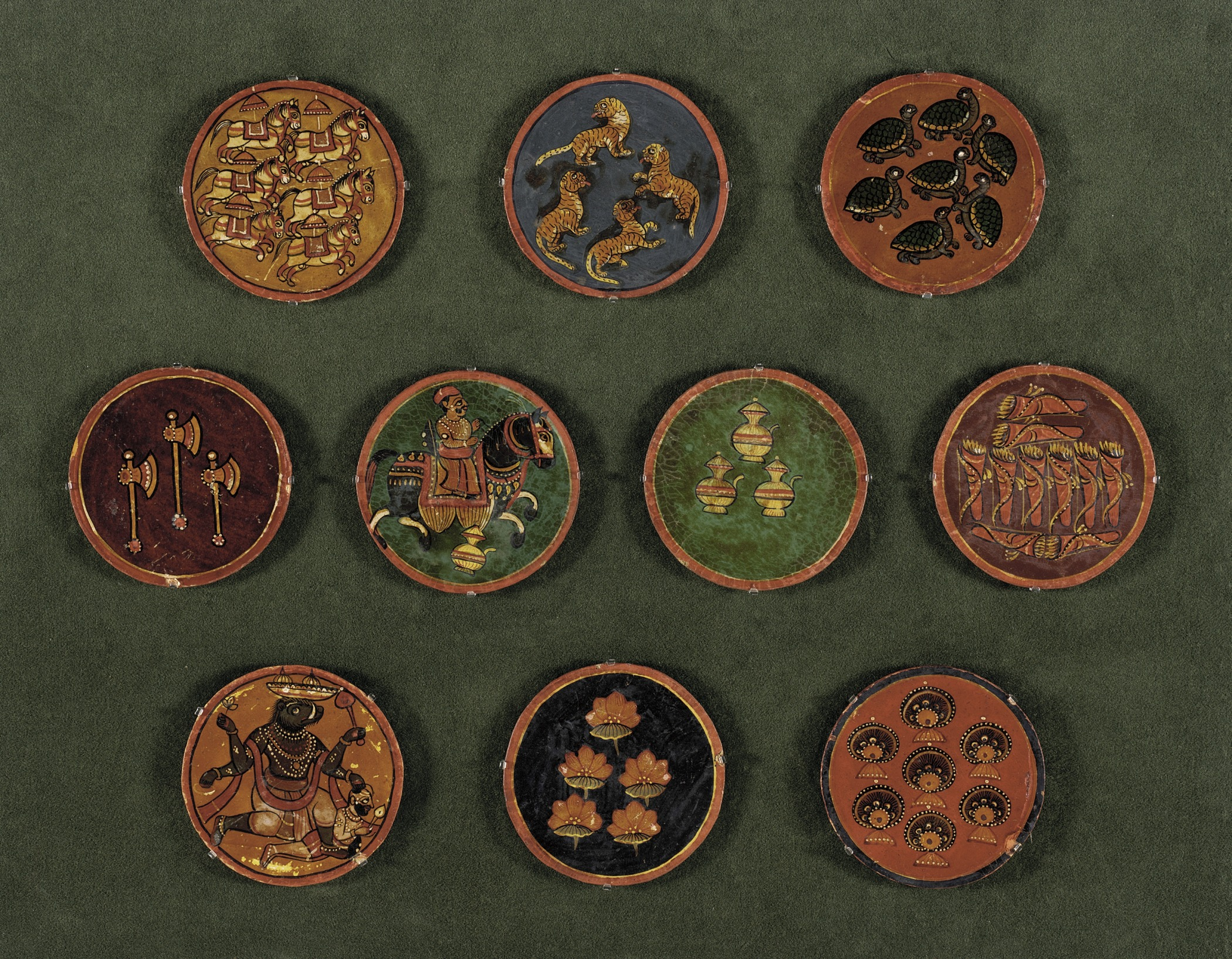 India, Rajasthan, 19th century Drawings; watercolors Opaque watercolor on cardboard Diameter: 2 7/8 in. (7.3 cm) each; Framed: 14 1/8 x 17 3/4 x 1 1/2 in. (35.88 x 45.09 x 3.81 cm) Gift of Aruna and Ranjit Roy (M.2001.210.4.1-.10) South and Southeast Asian Art